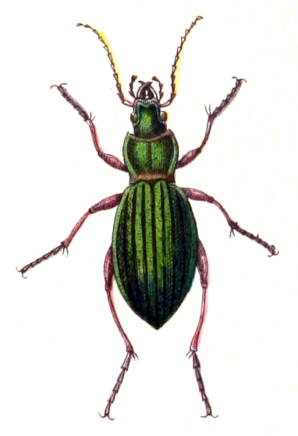 Carabus auronitens, from Calwer's Käferbuch, Table 3, Picture 7. Taxonomy was updated to 2008, using mostly the sites Fauna Europaea and BioLib. Please contact Sarefo if the determination is wrong!